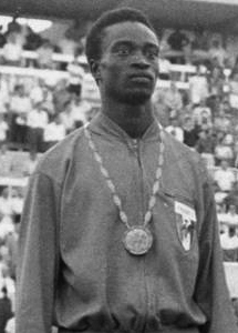 Abdoulaye Seye, Livio Berruti and Lester Carney at the Rome Olympics